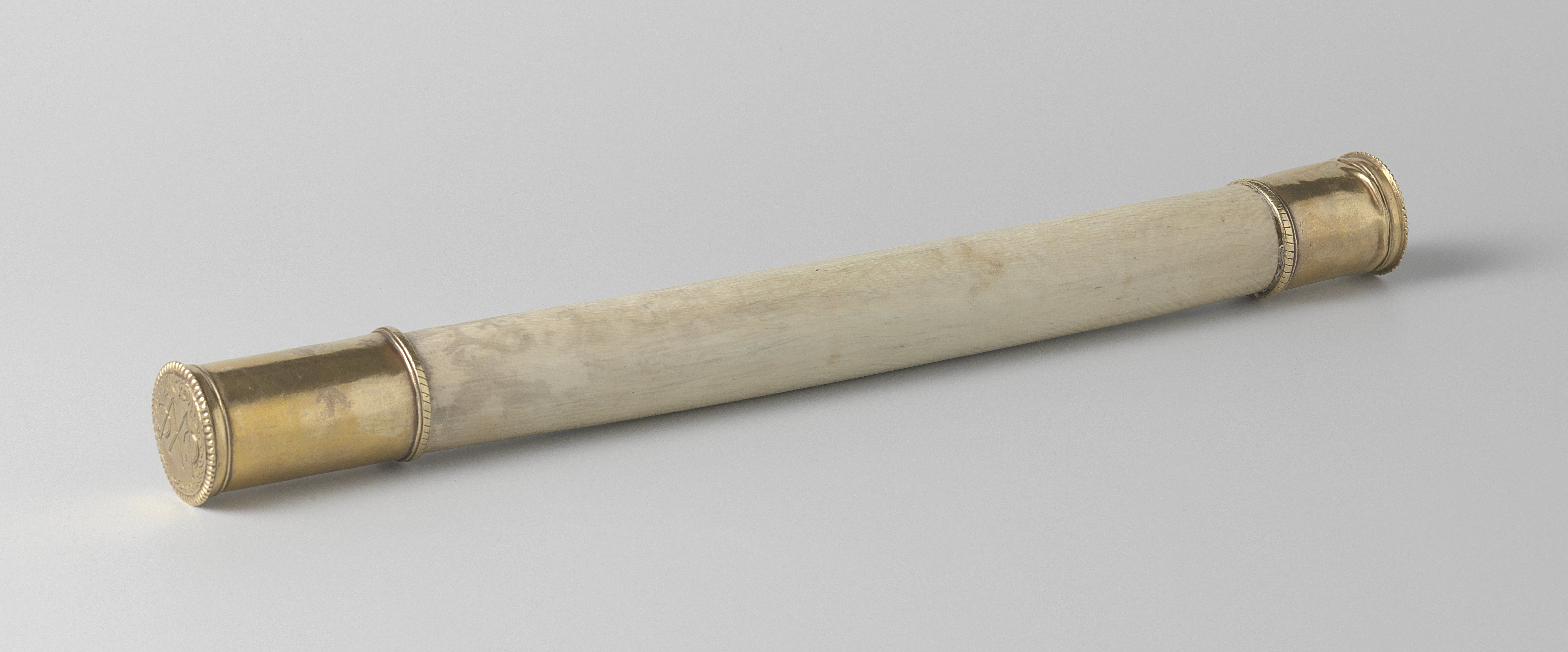 Baton of the governor of the Dutch West India Company, 17th century, ivory and gold, 37.2 by 3.8 cm, Rijksmuseum Amsterdam